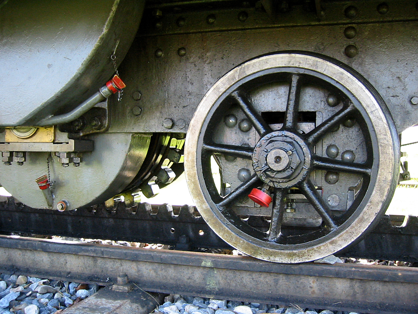 Traction unit, Rowan locomotive He 2/2 no. 6 of the Jungfraubahn; Kallnach, Berne, Switzerland